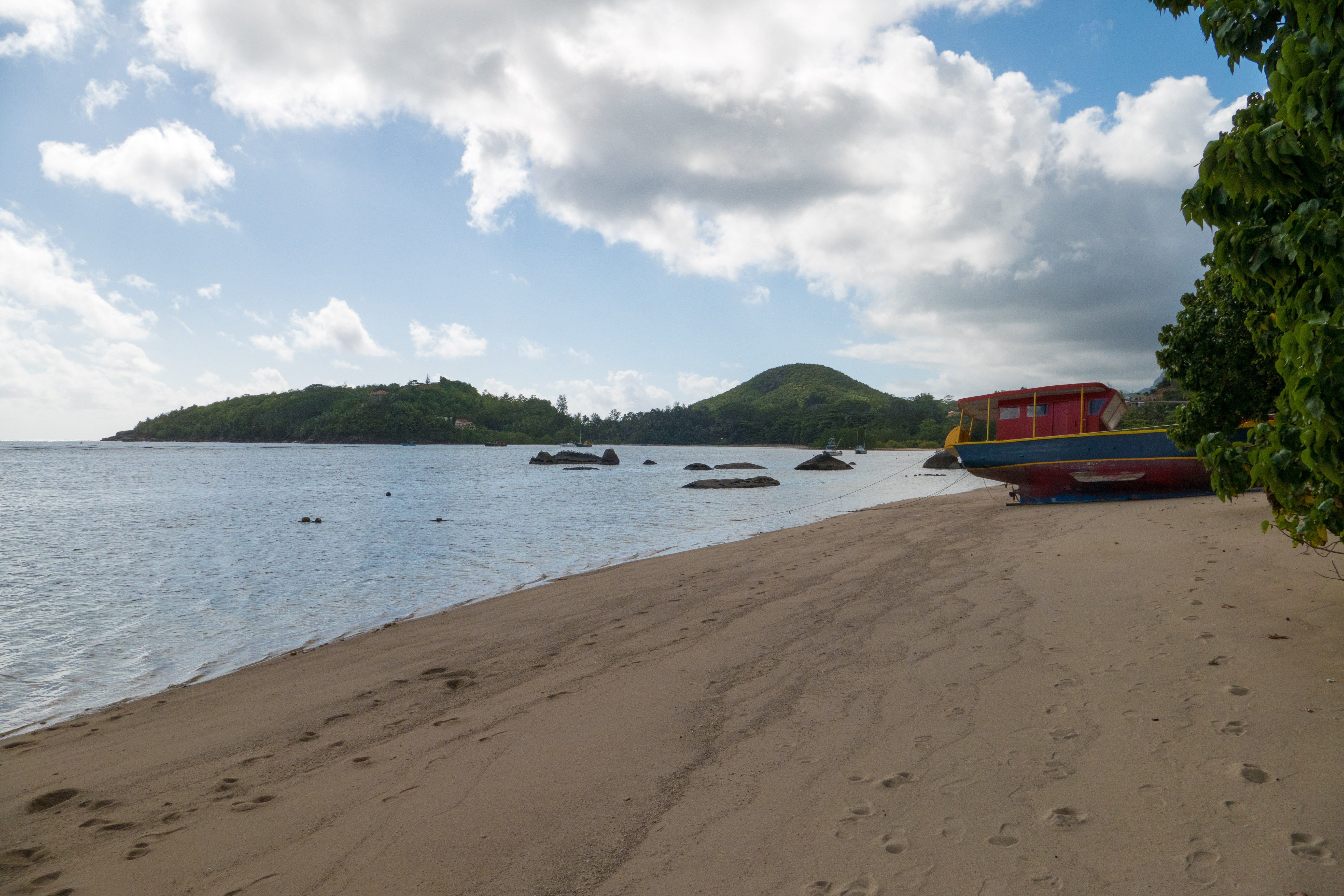 You may reuse this image on the web provided you credit us with link back to our website . For print use please contact us at